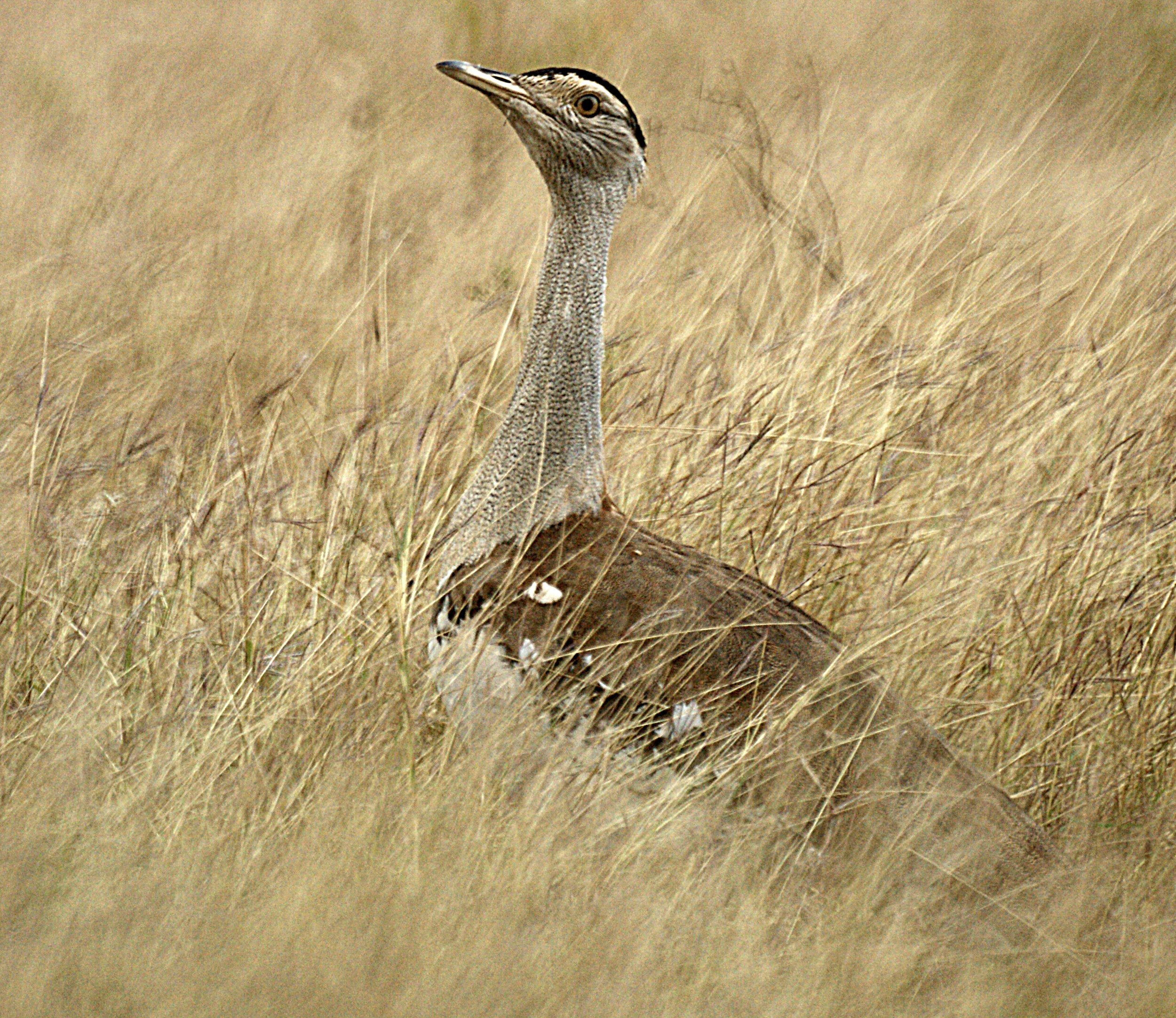 Australian Bustard Ardeotis australis, Birralee-Strathmore drive, Springlands, Queensland, Australia.